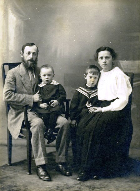 Kurkin S.A.